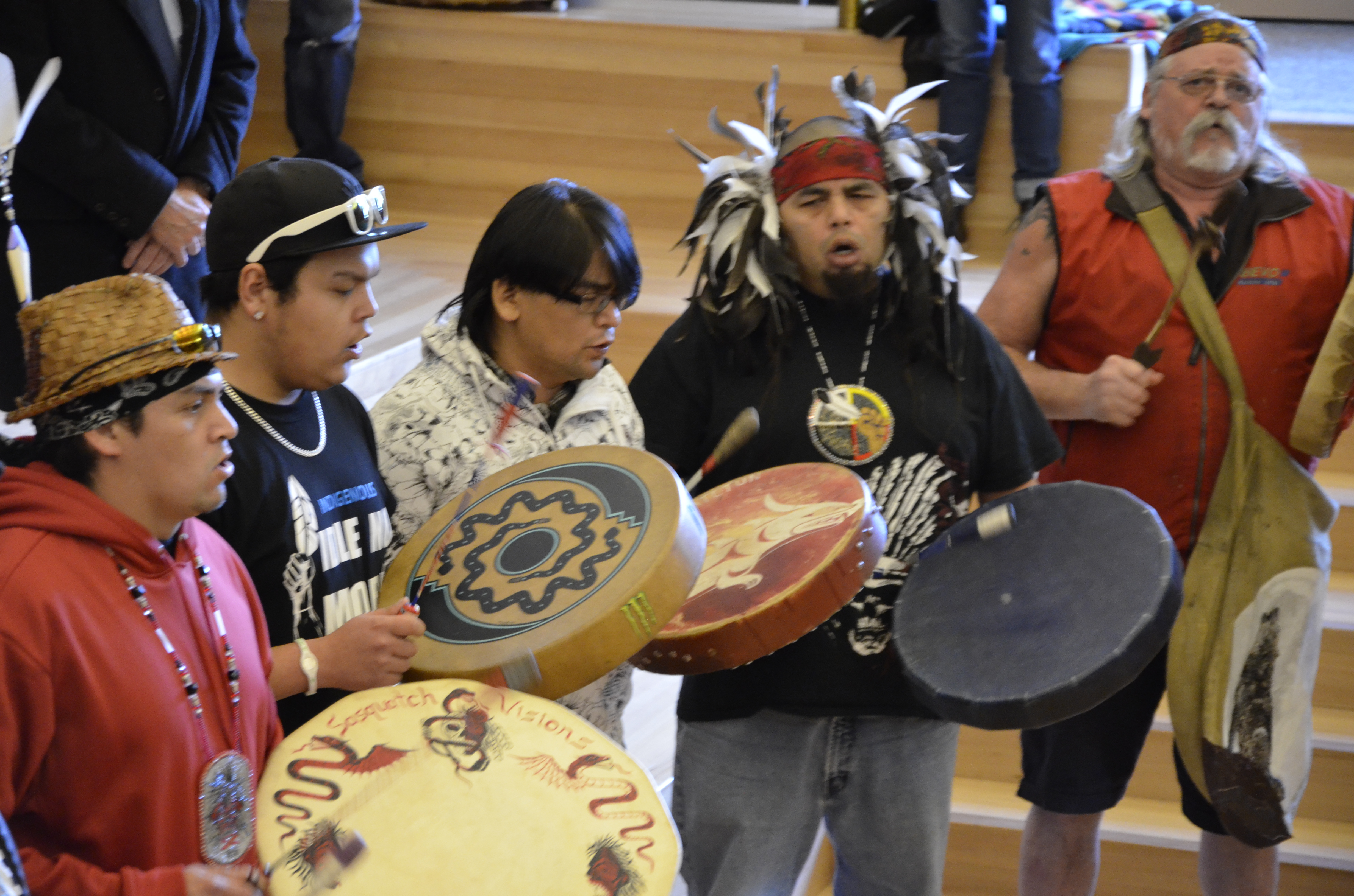 Idle No More forum